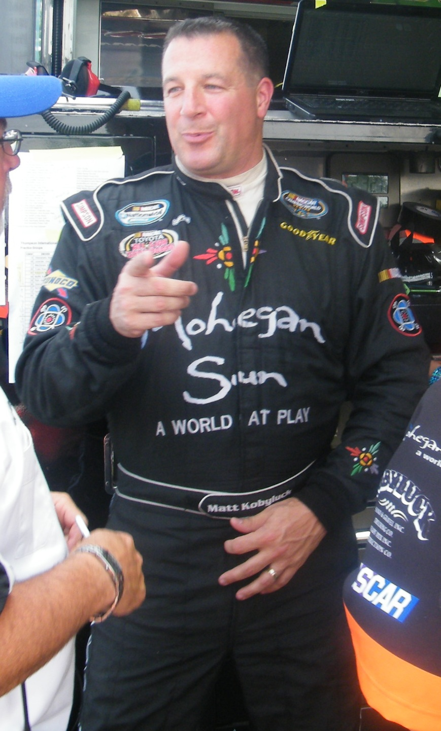 Matt Kobyluck at Thompson Speedway, July 2009.